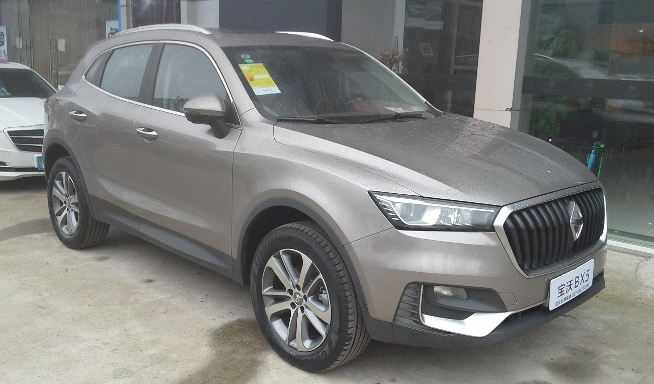 Borgward BX5 photographed in Wuhan, Hubei province, China.